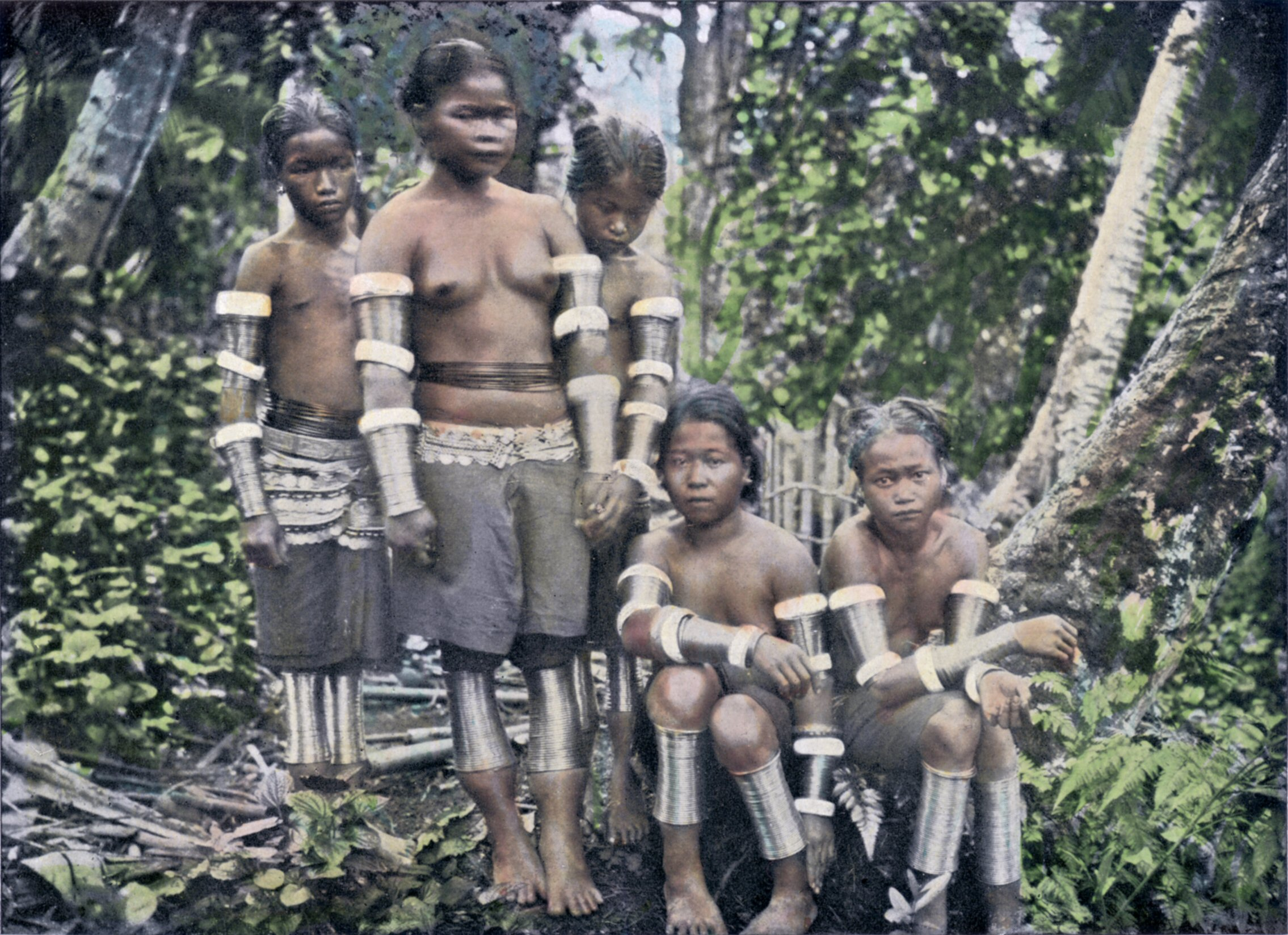 Group of Land Dayak women. (Sadong district?)